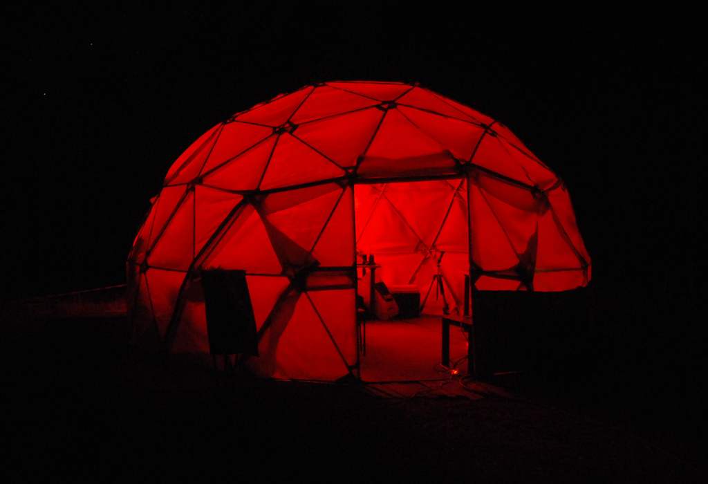 5/8 Geodesic Dome for Hackerspace.gr